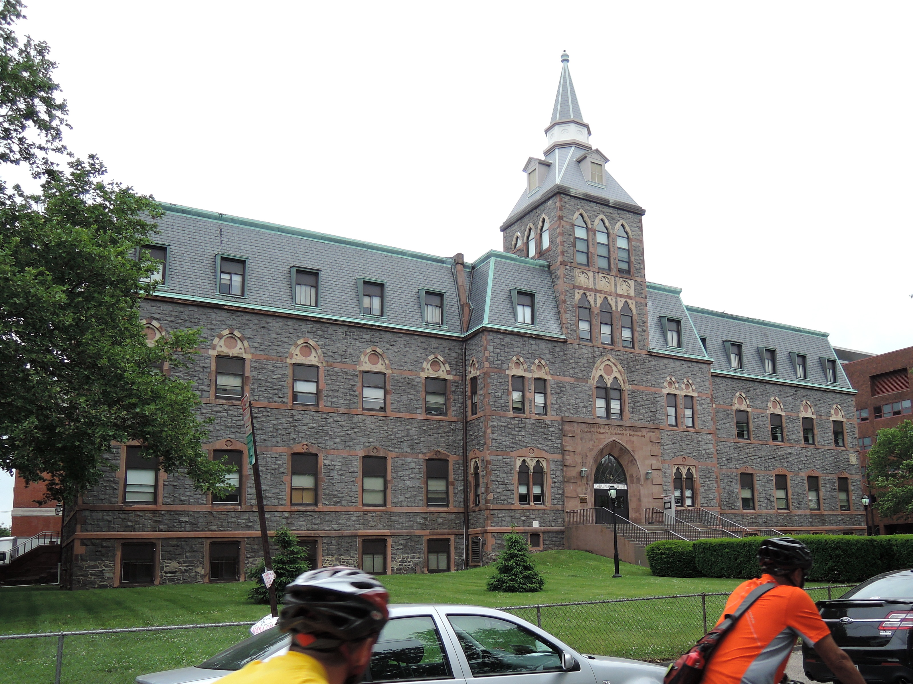 Looking northeast while biking past auditorium on a cloudy day.